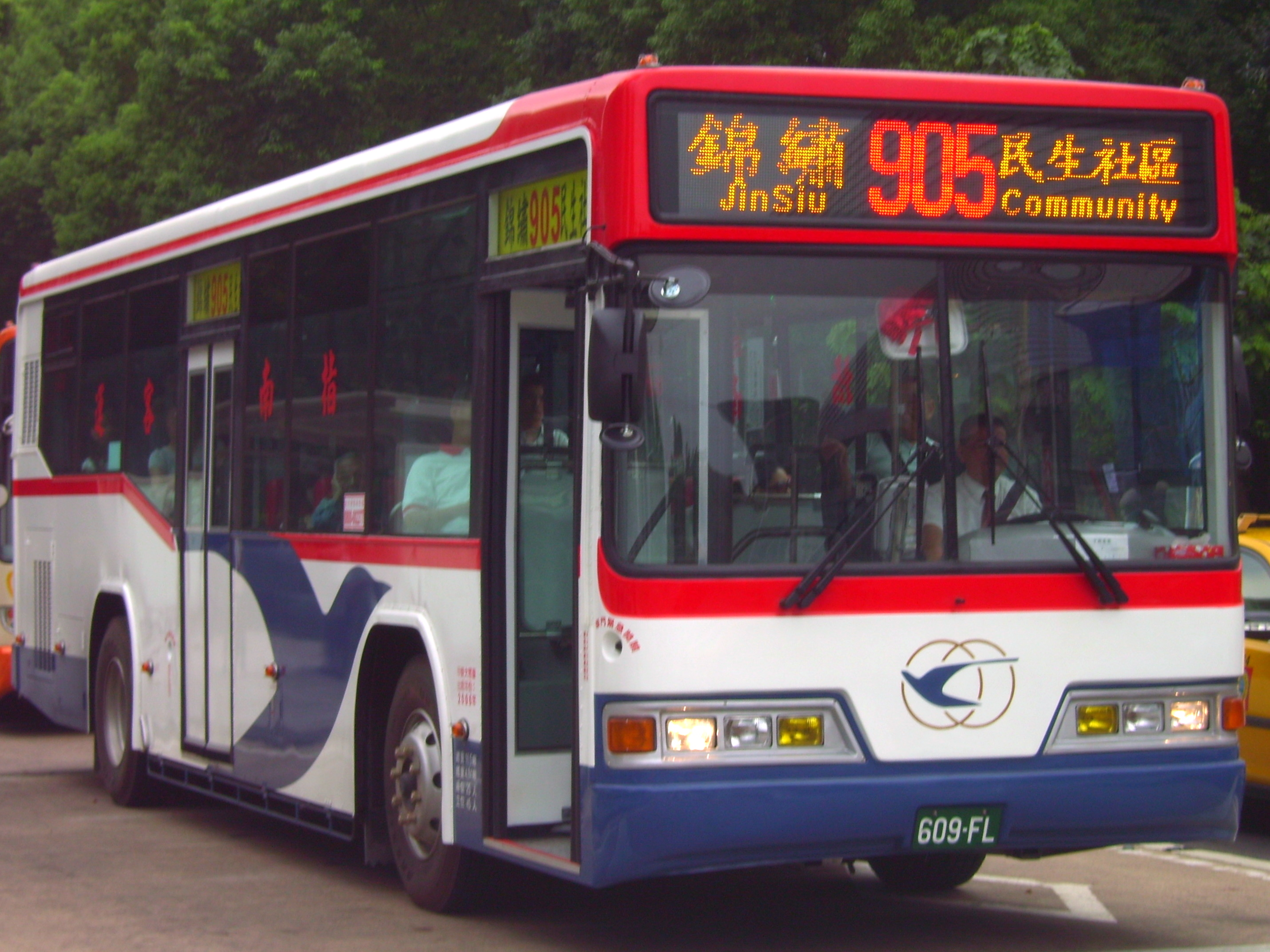 Chih Nan Bus Company imported Daewoo BC211MAT3 bus chassis and operated with route 905.